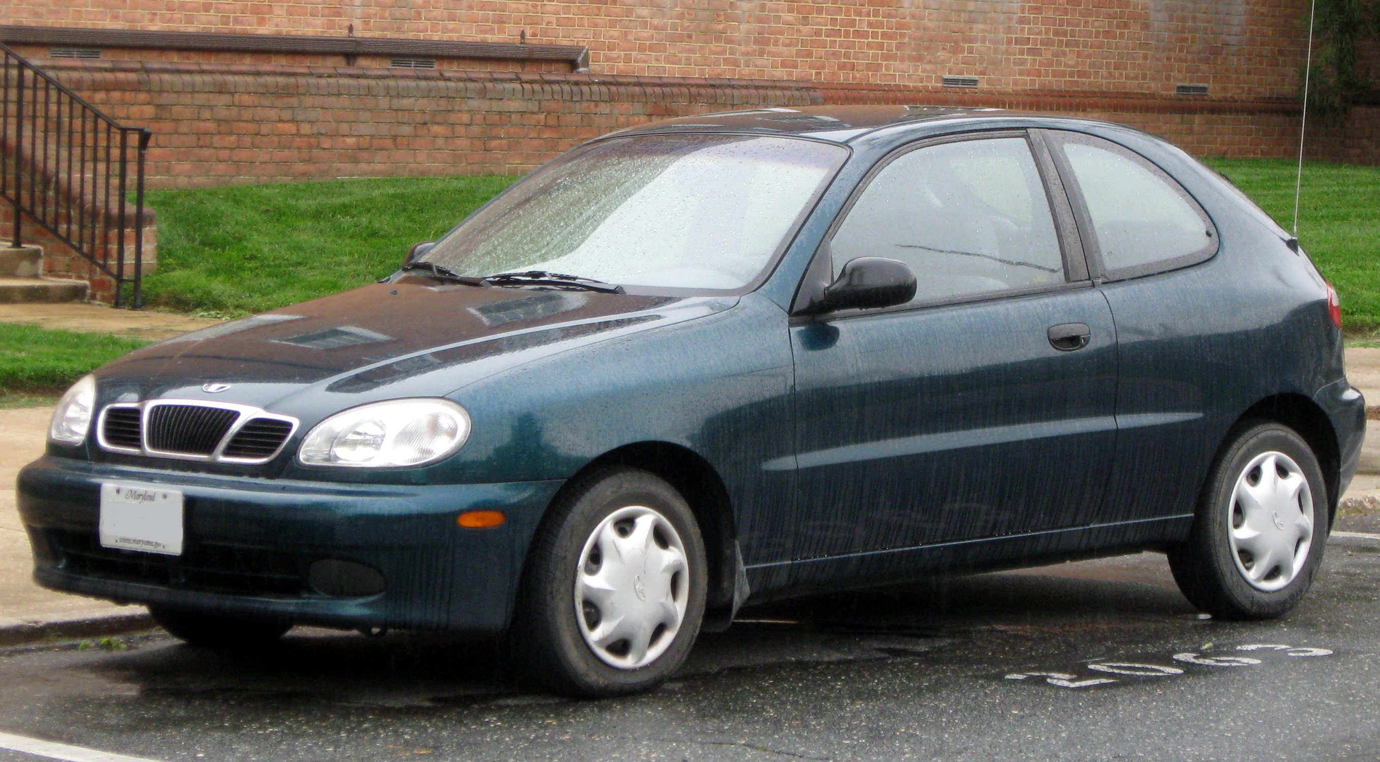 Daewoo Lanos photographed in College Park, Maryland, USA.